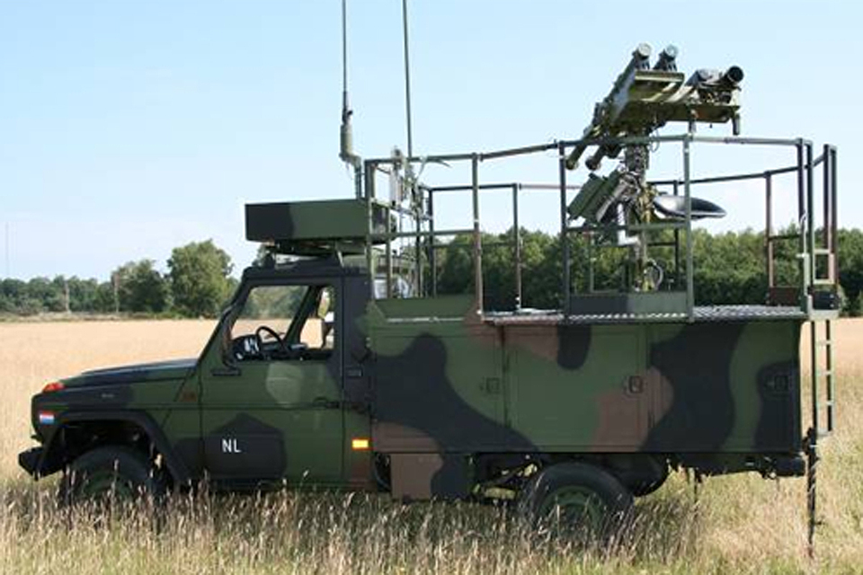 stinger on a mb